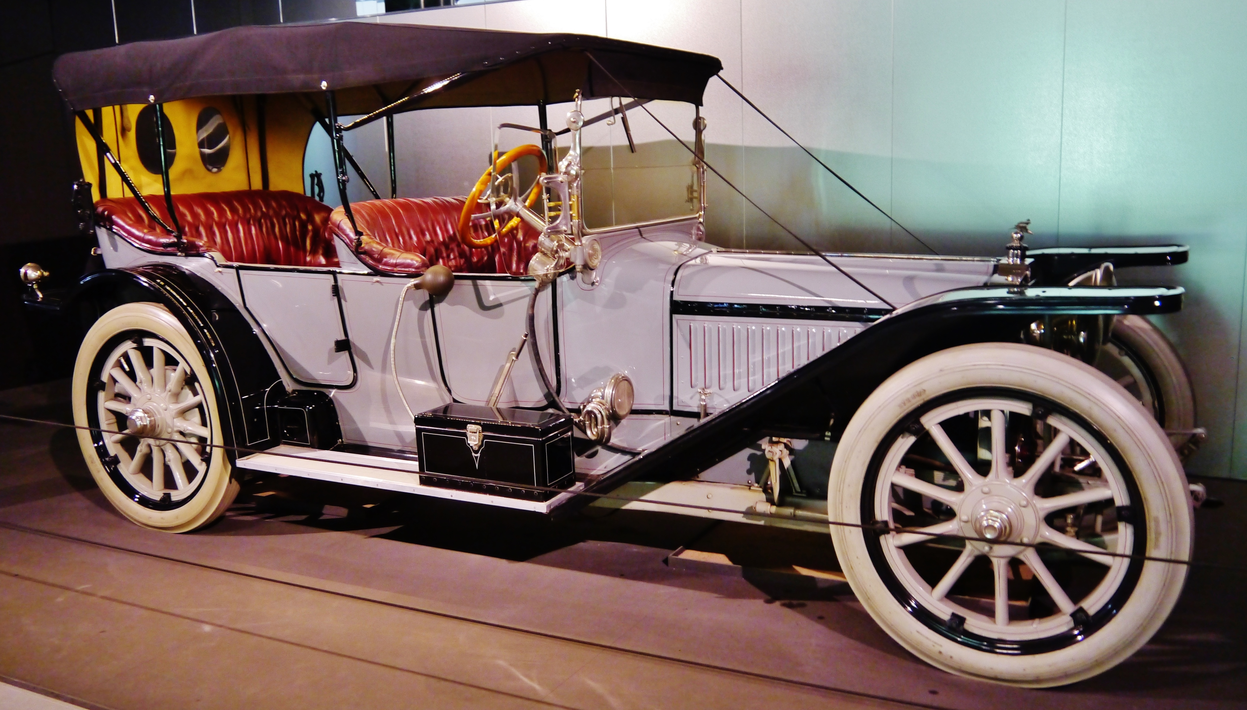 National Automobile Museum/Louwman Museum, The Hague, Province of South Holland, Netherlands